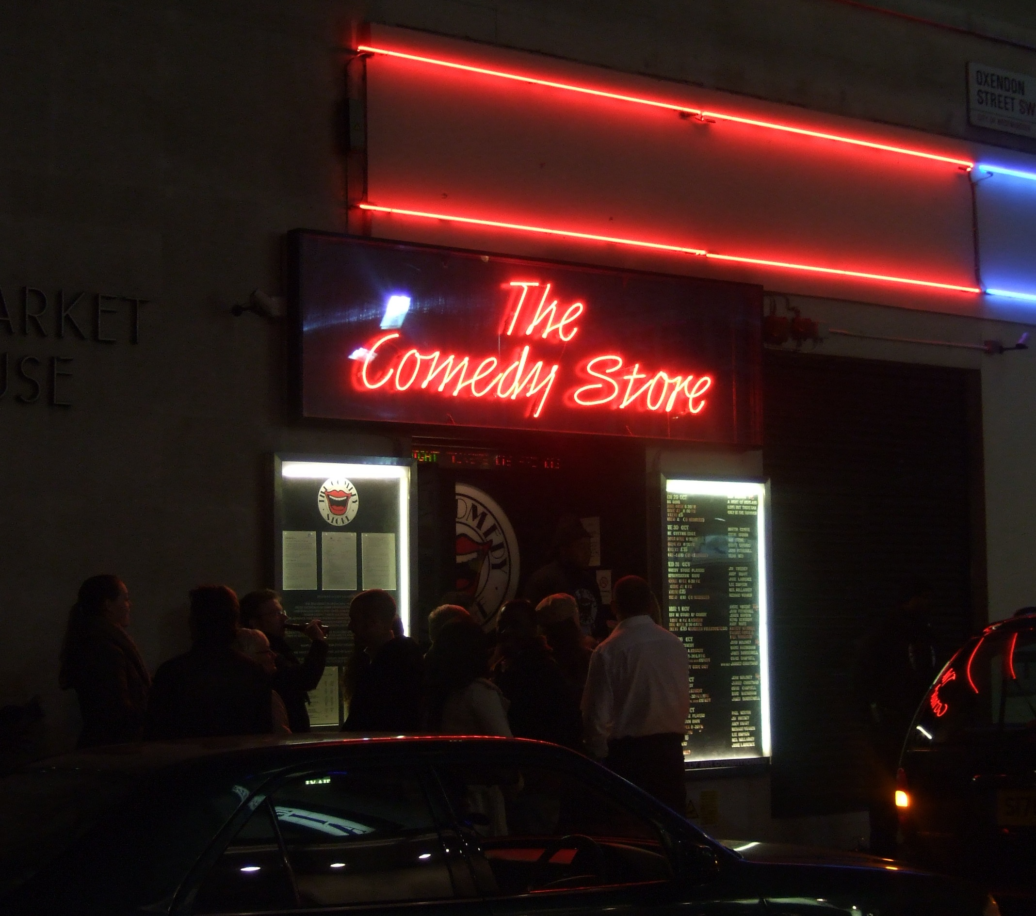 The Comedy Store, Soho, London 1a Oxendon Street London SW1Y 4EE